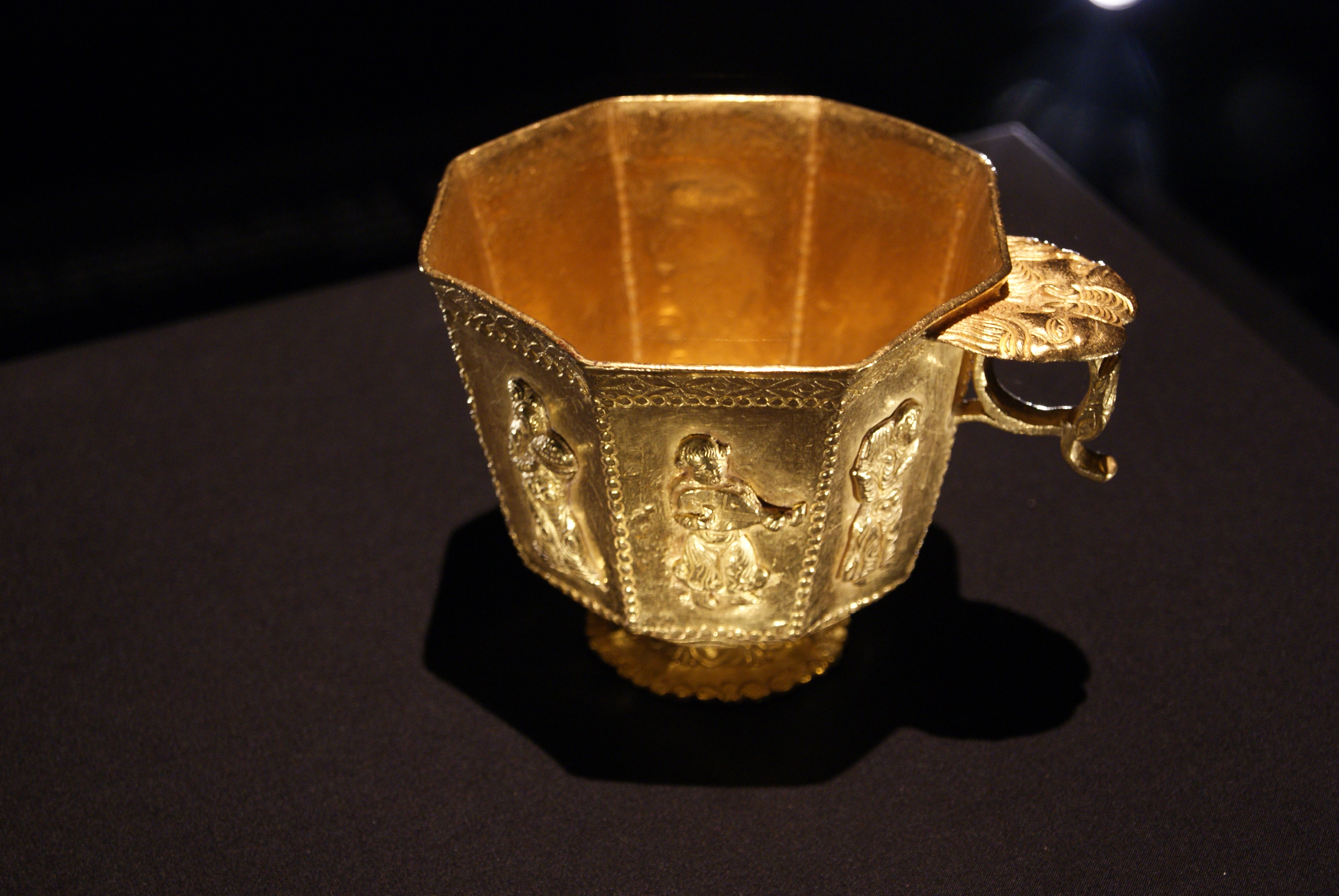 Part of the collection of artifacts from the Belitung shipwreck owned by the Sentosa Leisure Group and the Government of Singapore, photographed while displayed at an exhibition called Shipwrecked: Tang Treasures and Monsoon Winds at the ArtScience Museum, Marina Bay Sands, Singapore, from 19 February 2011 to 31 July 2011.